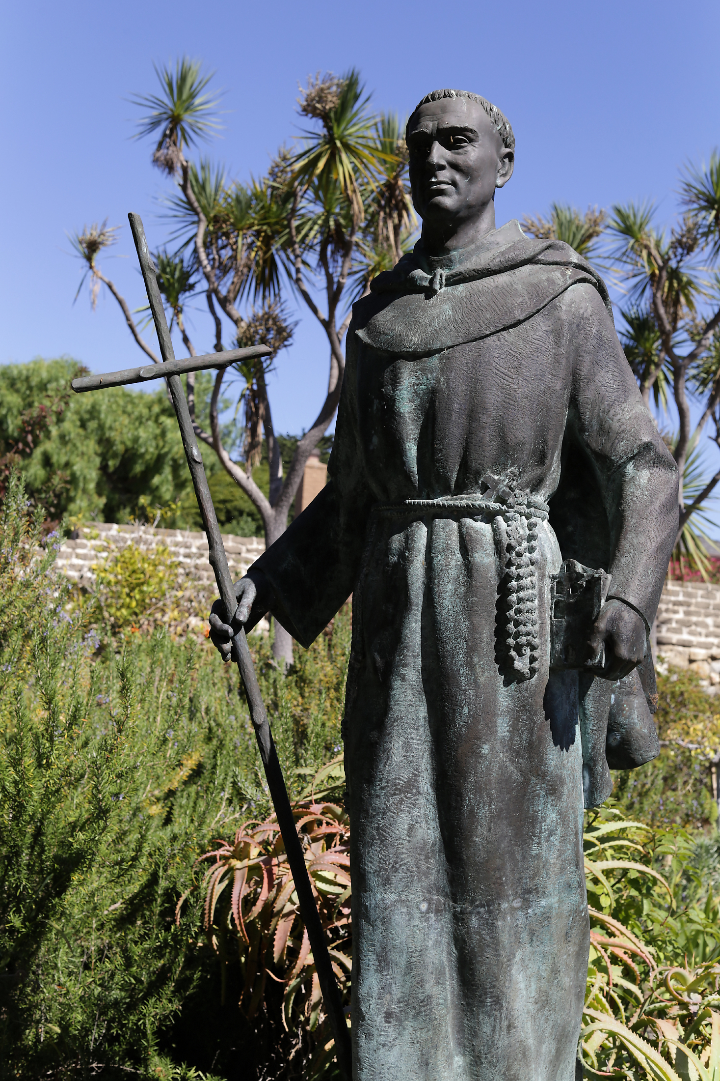 Mission San Carlos Borroméo del río Carmelo, Carmel, California. Also known as the Carmel Mission, it remains a parish church today. It is the only one of the California Missions to have its original bell tower dome